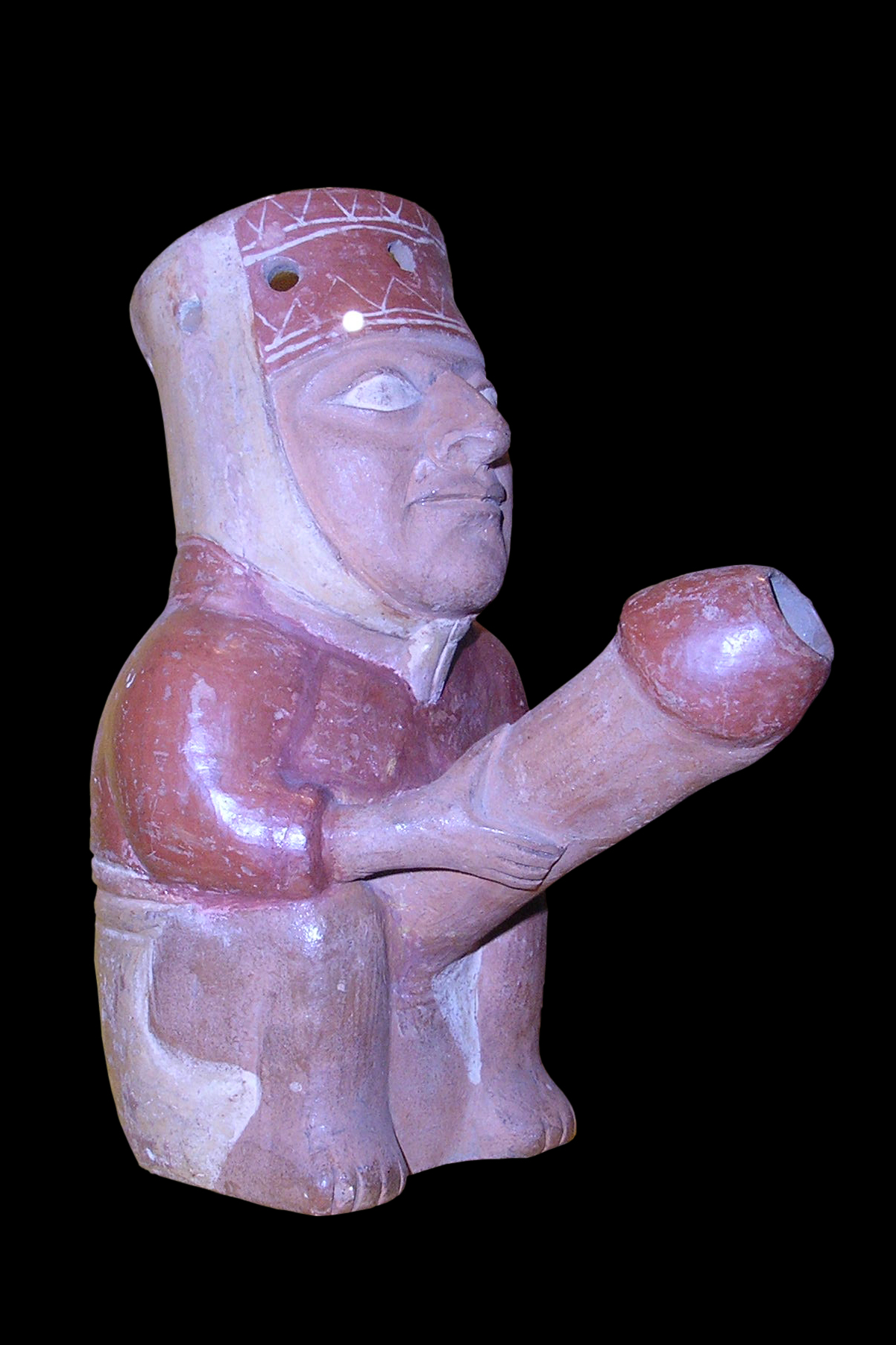 Kurupi, a legendary creature from Guaraní mythology